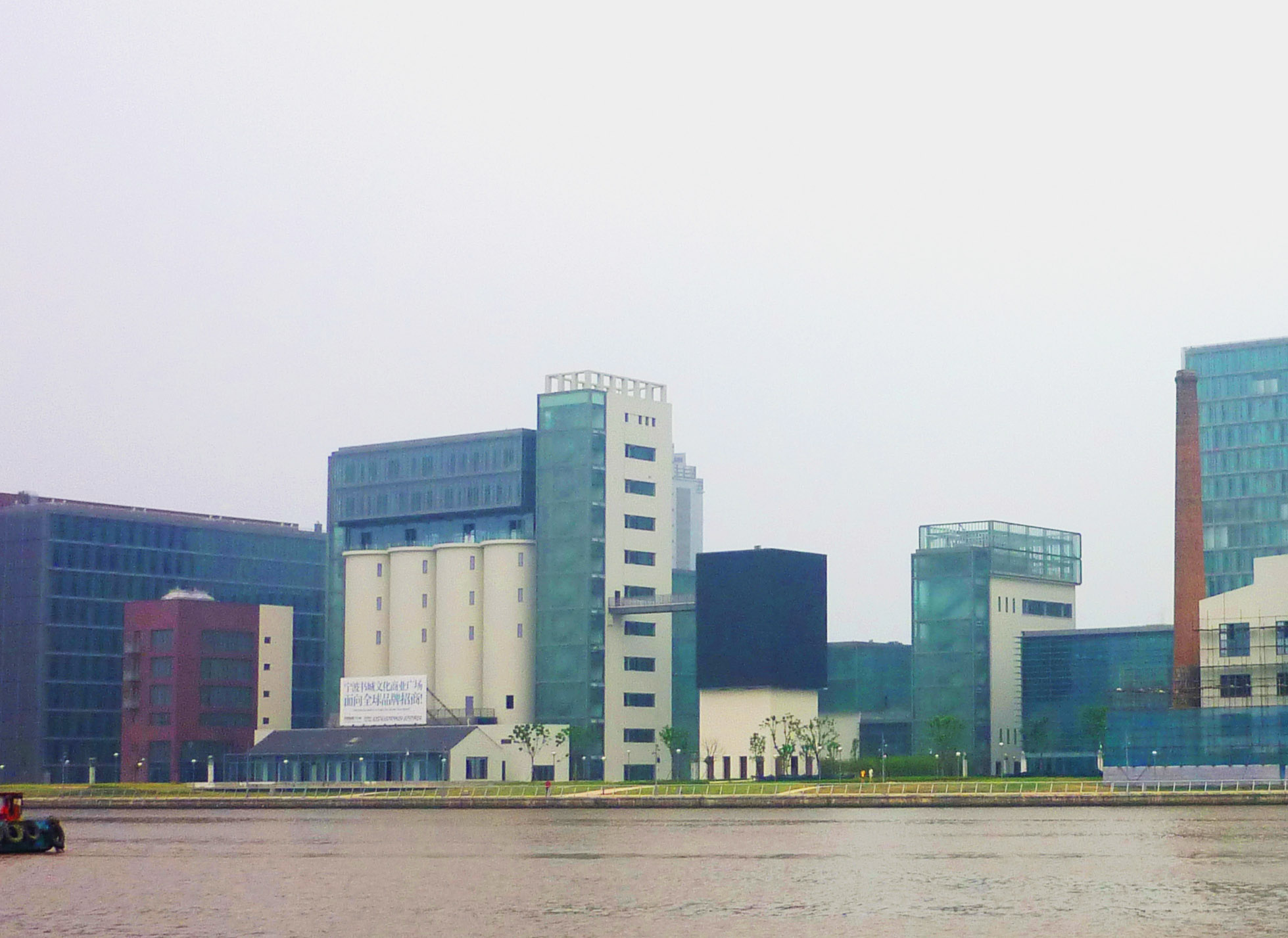 Ningbo Book City in old flour factory